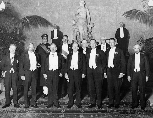 Dinner at Lancaster House for the Prime Ministers of the Commonwealth attending the Imperial Conference